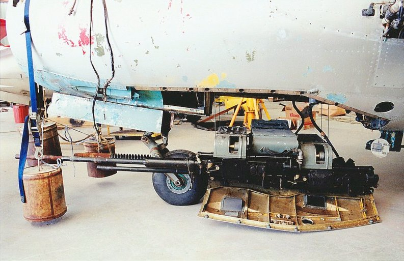 Gun pack of a Polish-built MiG-17 (Lim-6) undergoing restoration at Bankstown Airport in Sydney, Australia. Image scanned from a 6"x4" photograph of the gun pack of ex-Polish Air Force WSK PZL Mielec Lim-6bis serial 1J0434 taken by YSSYguy on 8 June 1992 and edited using Picasa software; uploaded for use in the Mikoyan-Gurevich MiG-17 article.